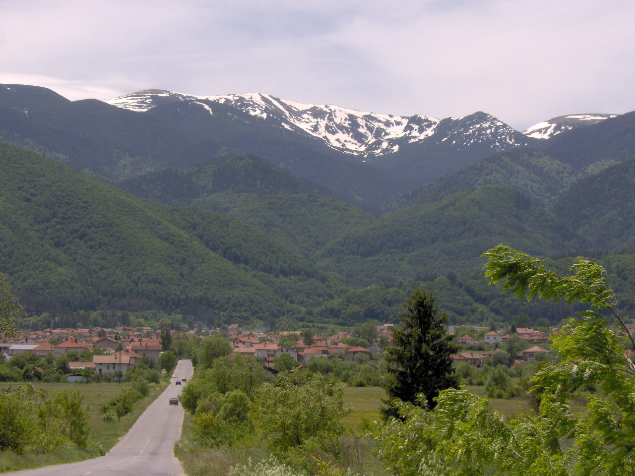 Village of Kostenets in Bulgaria